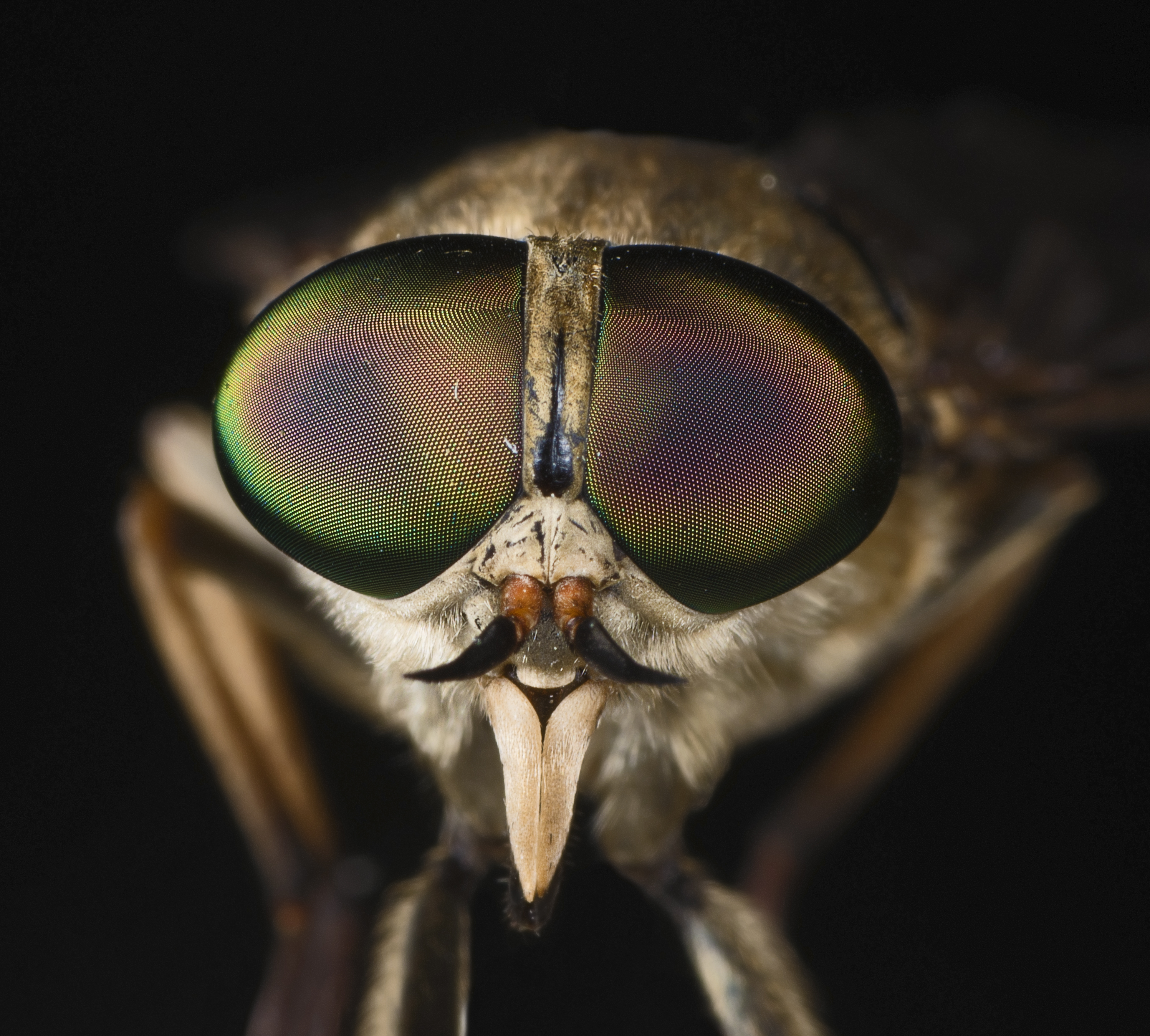 Dark giant horsefly